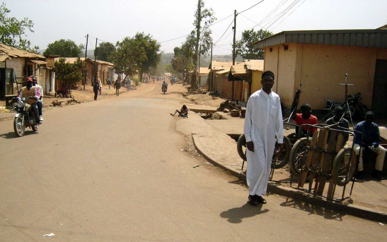 N'Gaoundere city centre, Cameroon